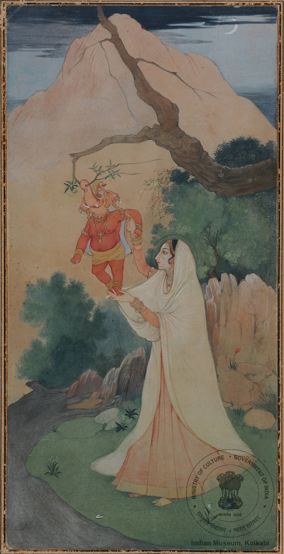 Ganasha-Janani by Abanindranath Tagore. Depicts Parvati playing with baby Ganesha.